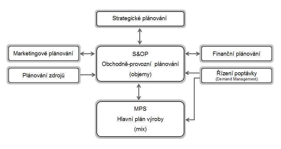 Key plans in a manufacturing company, to illustrate MPS and S&OP articles in Czech wikipedia